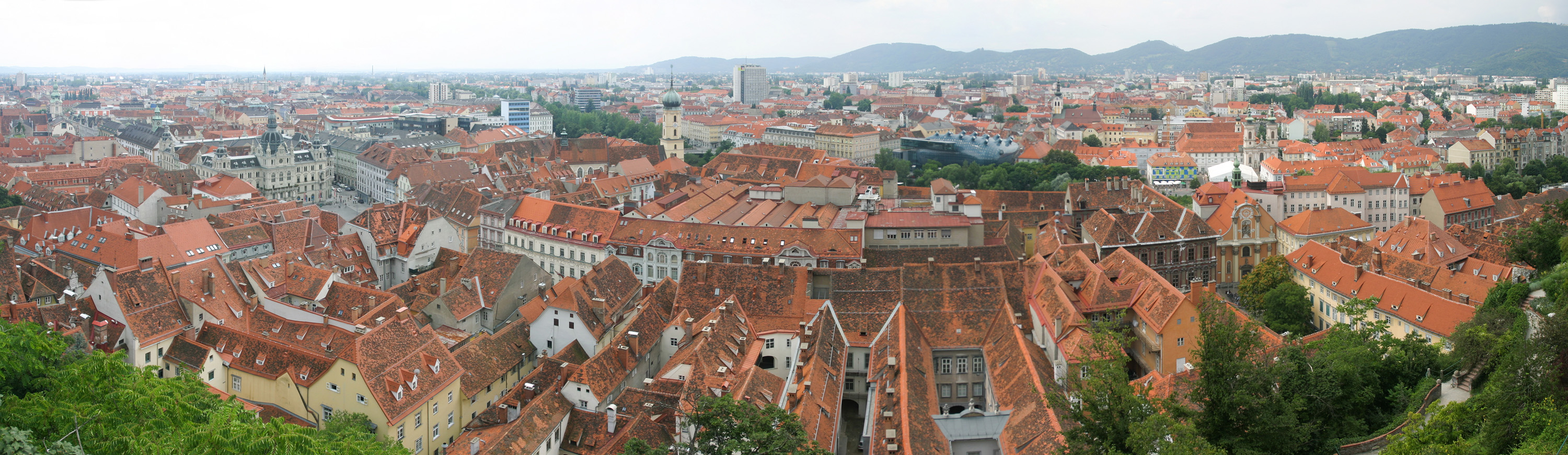 A 4 segment panoramic view of the Graz skyline from the Graz Schlossberg. Taken by myself with a Canon 10D and 17-40mm f/4L lens.